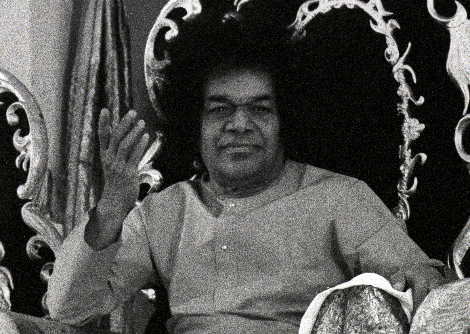 Sathya Sai Baba. Photo: Guy Veloso. India, 1996.